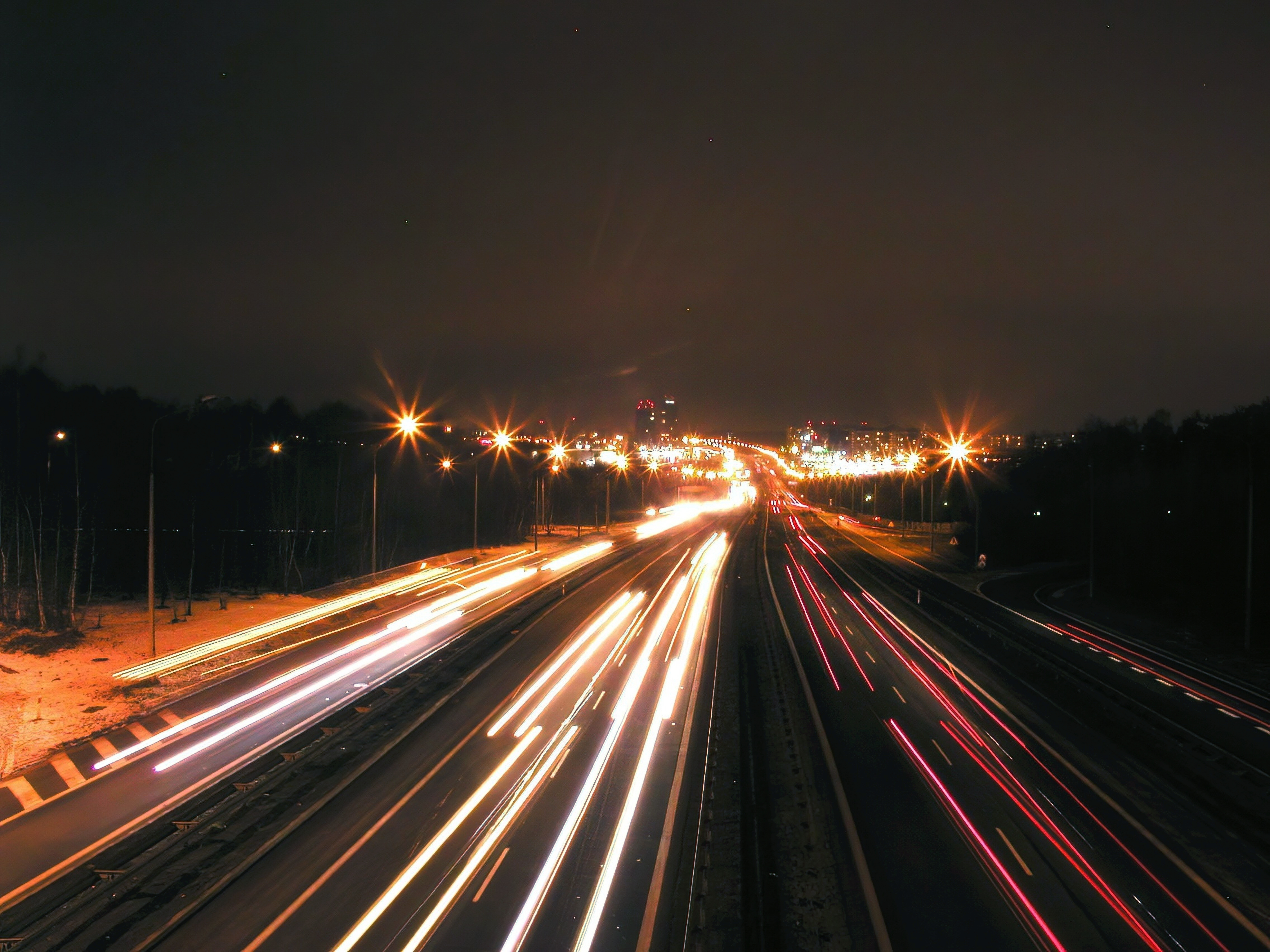 Highway A4 in Katowice (al. Górnośląska)